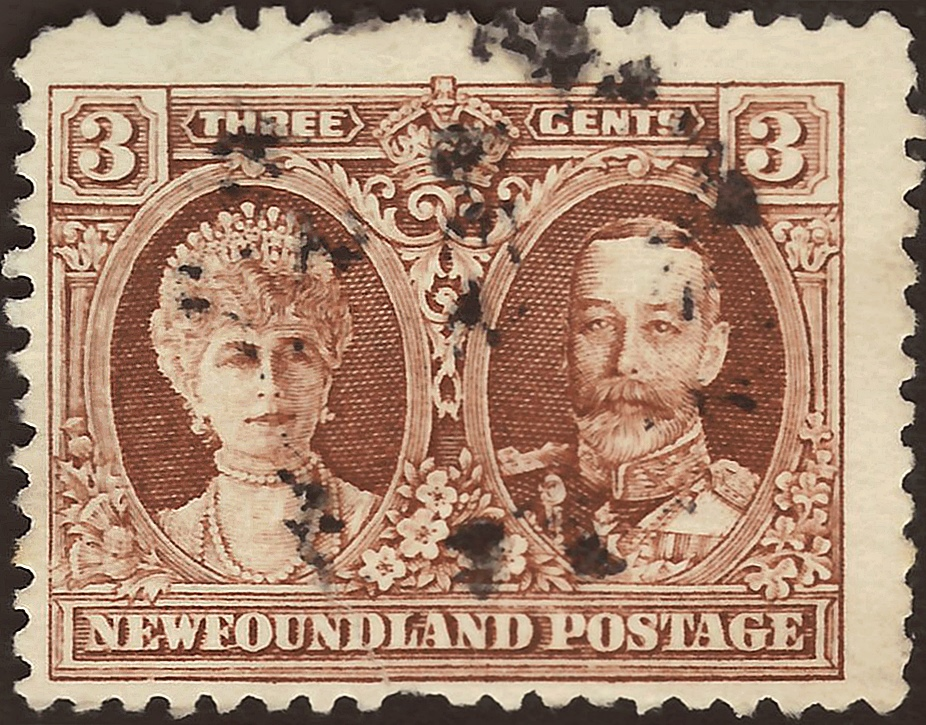 Stamp of Newfoundland (British colony); 1929; definitive stamp of the issue "Local Motives - Pictoral issue III"; re-issue of the original issue from 1928 with any few differences; stamp drawing with the portraits of Queen Mary of the United Kingdom and King George V of the United Kingdom each in oval; special caracteristic of the 1929 and 1931 re-issue: The pearls at the top of the crown have small curved lines, the jewels of the tiara have solid color, and the pillars flanking the portrait have vertical shading lines. Beside of these: the shields with the nominal value letters "THREE" and "CENTS" have horizontal shading lines. (crossed lines at the 1928 original issue); stamp postmarked; Unfortunately this stamp is damaged. Stamp: Michel: No. 147; Yvert et Tellier: No. 149; Scott: No. 165 Color: reddish yellow brown Watermark: none Nominal value: 3 Cents Postage validity: from 1929 until ? Stamp picture size (printed area): 25.0 x 17.5 mm